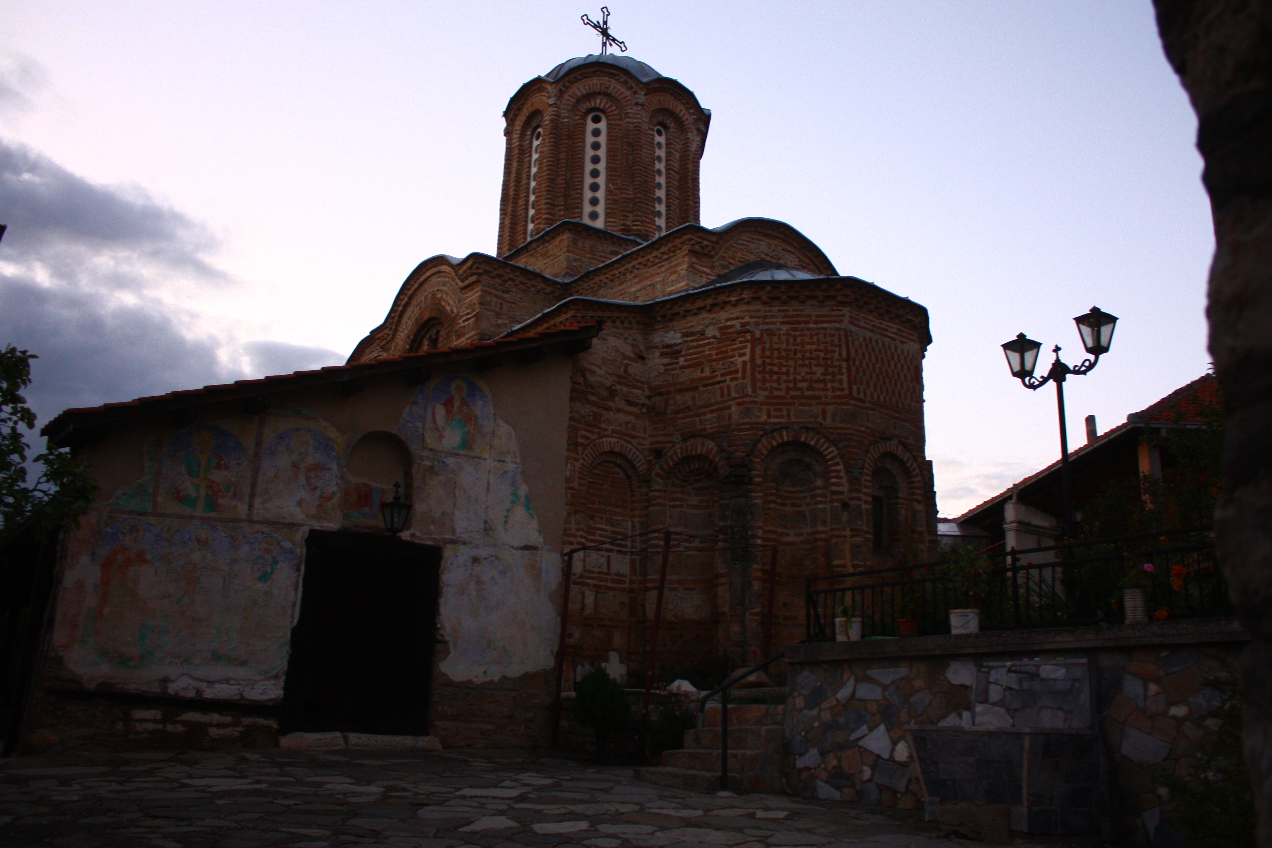 Kučevište, Macedobia Ова е фотографија на споменик на културата во Македонија со типски код: F01This is a a photo of a cultural monument in North Macedonia with type id: F01